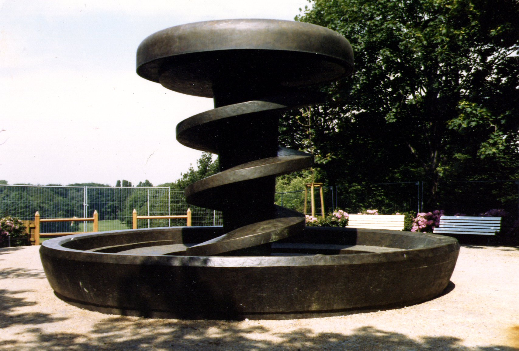 Picture of the in 1987 recreated Rathenau-Monument in Berlin, Germany. Day before grand opening.